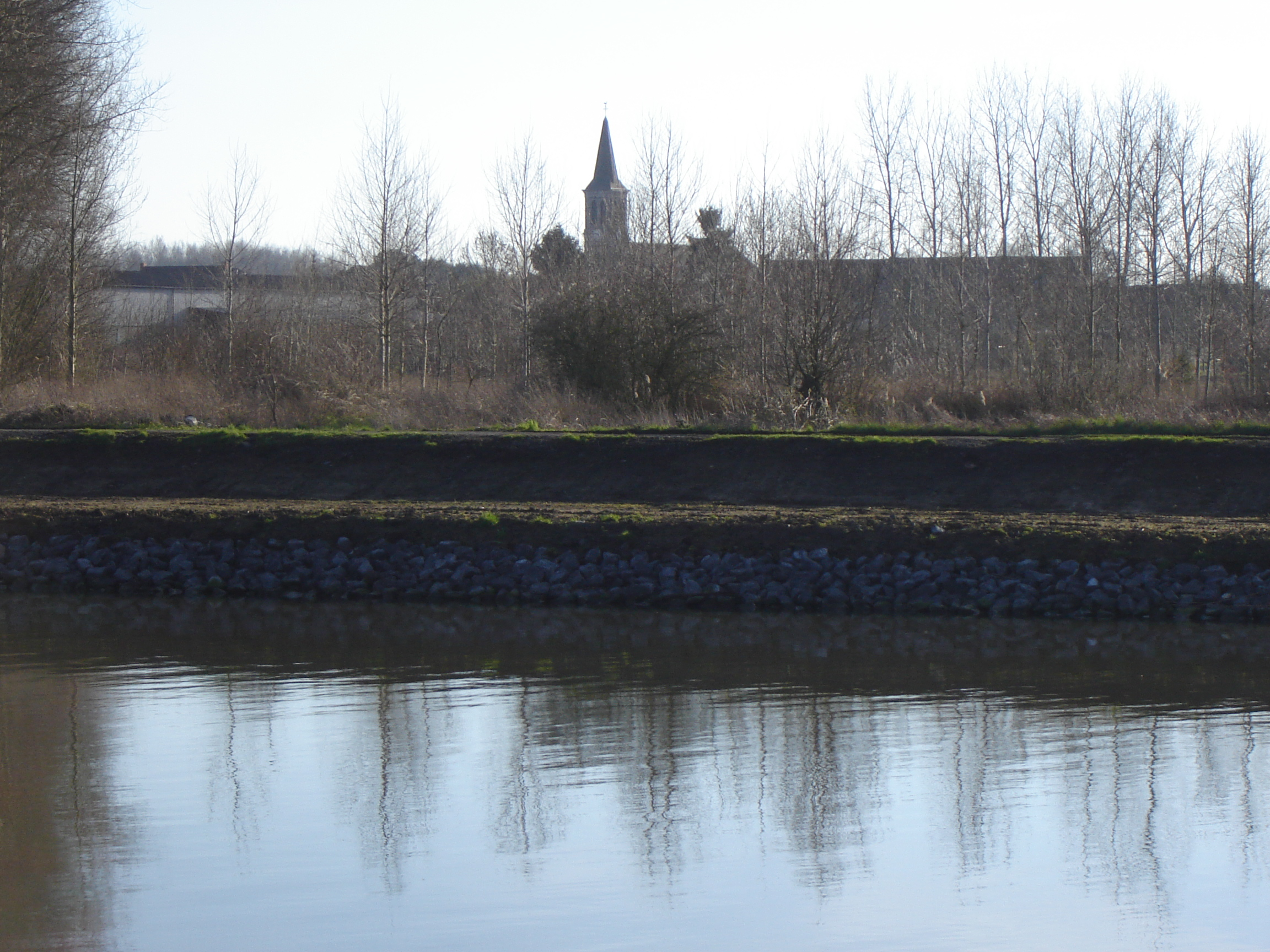 The village of Maulde, as seen across the river Scheldt. Maulde, Nord, Nord-Pas-de-Calais, France